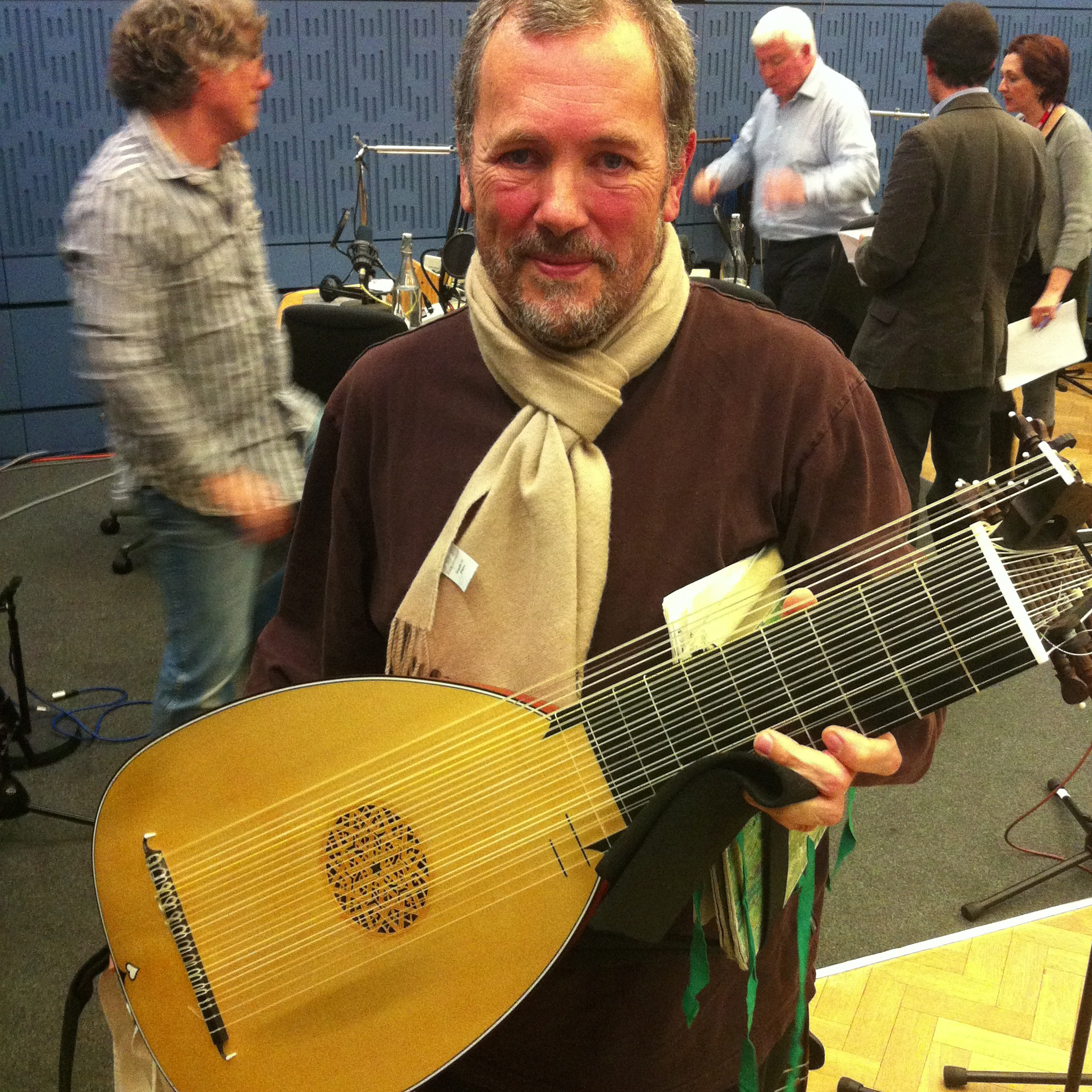 English lutenist Nigel North (at BBC Radio, London)